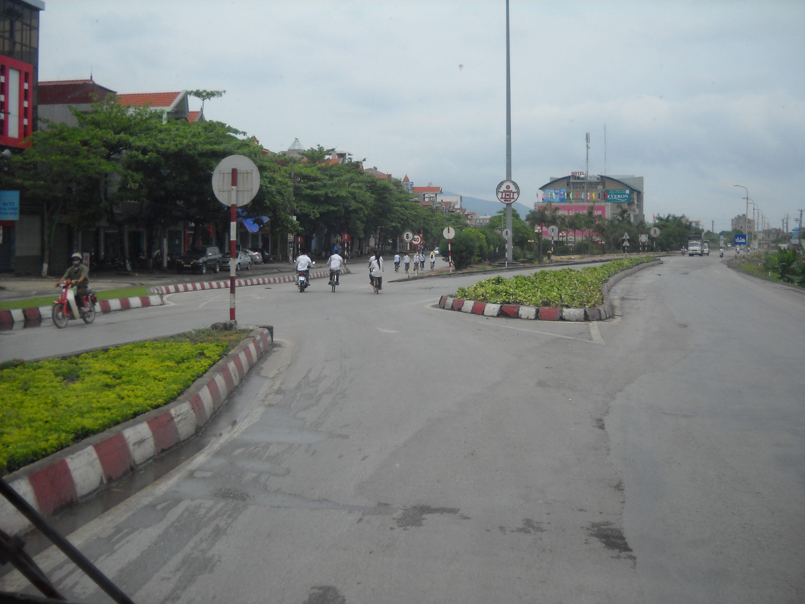 Entrance of Uông Bí city